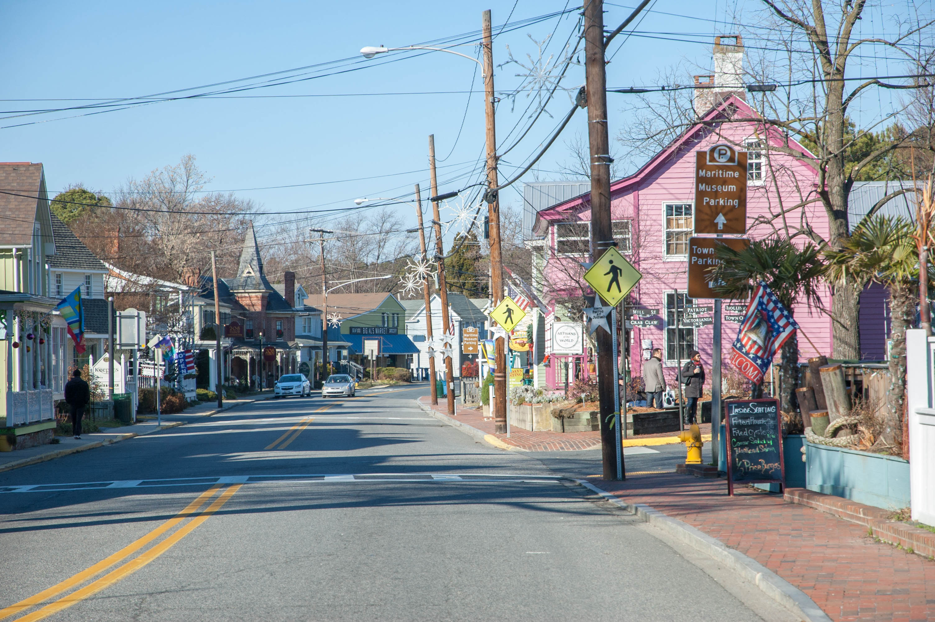 Looking north on North Talbot Street, retail district of Saint Michaels, MD